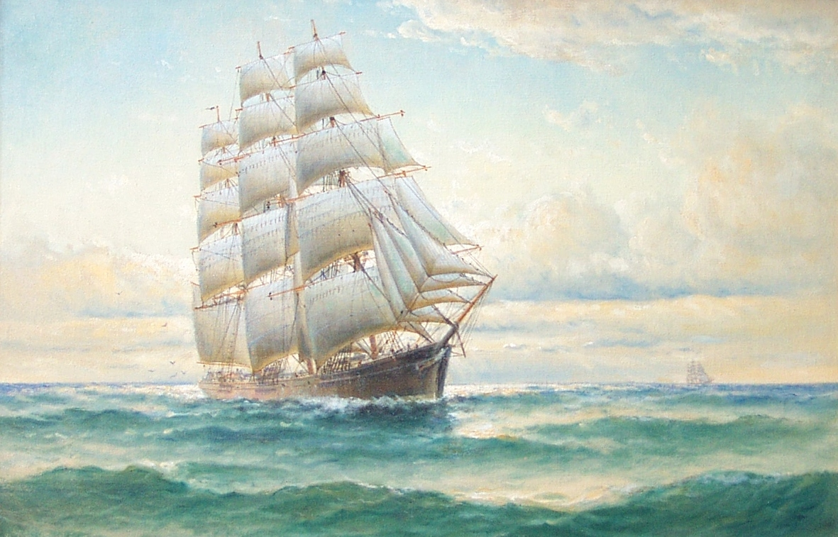 The Clipper Flying Cloud, by William A. Coulter